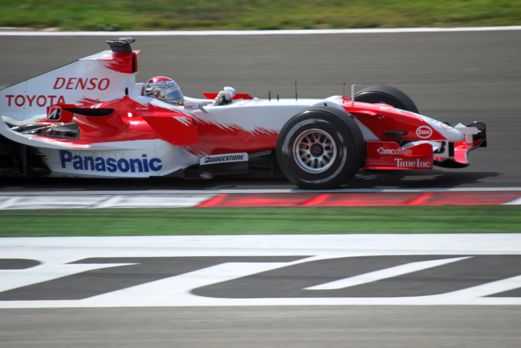 Jarno Trulli driving for Toyota F1 at the 2006 Turkish Grand Prix.